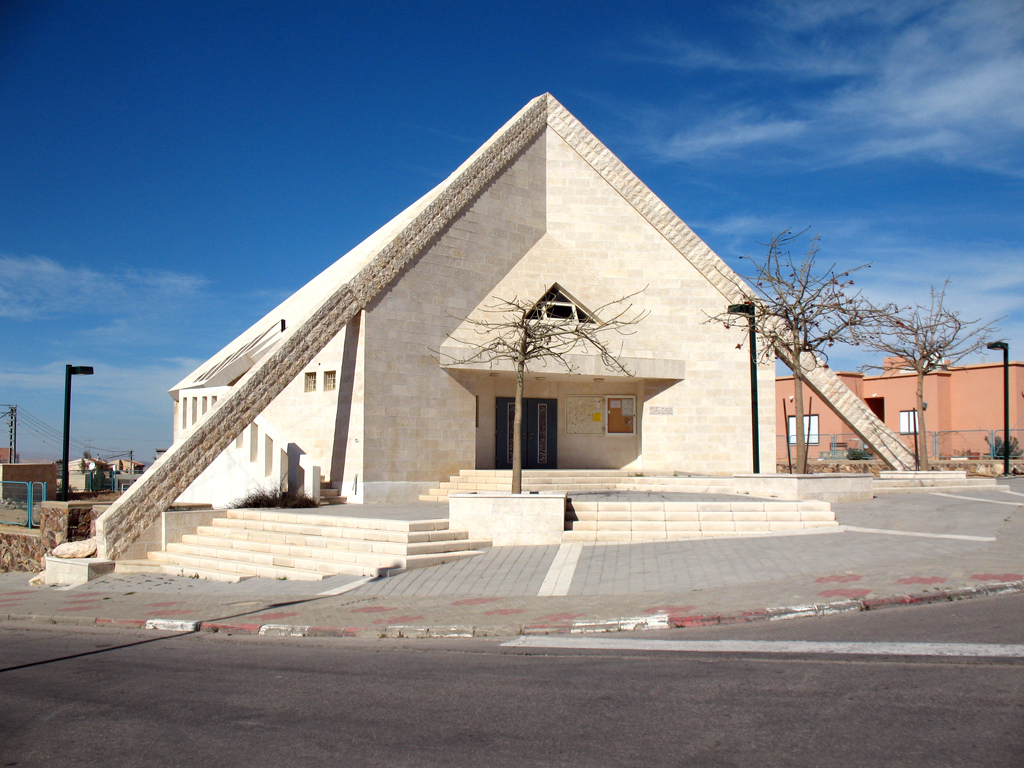 Shaked neighborhood synagogue in Arad, Israel